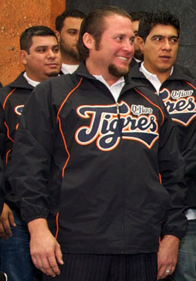 Reception of the team 'Tigres de Quintana Roo' champions of the Mexican Baseball League Season 2013. Official Residence of Los Pinos, Mexico City. December 6, 2013